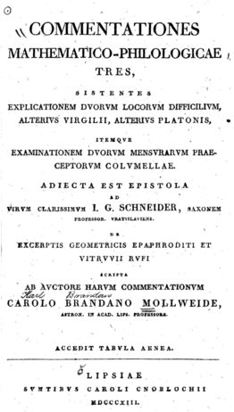 Frontpage of Commentationes mathematico-philologicae (1813) by Carl Mollweide (1774-1825)